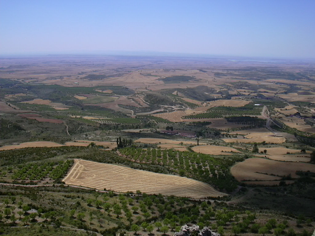 Landscape of the Hoya de Huesca comarca seen from the castle of Loarre.